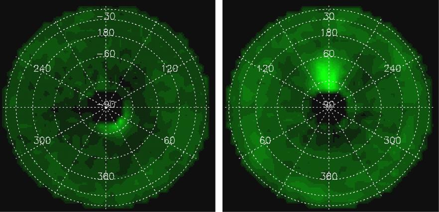 These images and movie show the distribution of the organic molecule acetylene at the north and south poles of Jupiter, based on data obtained by NASA's Cassini spacecraft in early January 2001. It is the highest-resolution map of acetylene to date on Jupiter. The enhanced emission results both from the warmer temperatures in the auroral hot spots, and probably also from an enhanced abundance in these regions. The detection helps scientists understand the chemical interactions between sunlight and molecules in Jupiter's stratosphere. These maps were made by NASA's composite infrared spectrometer.